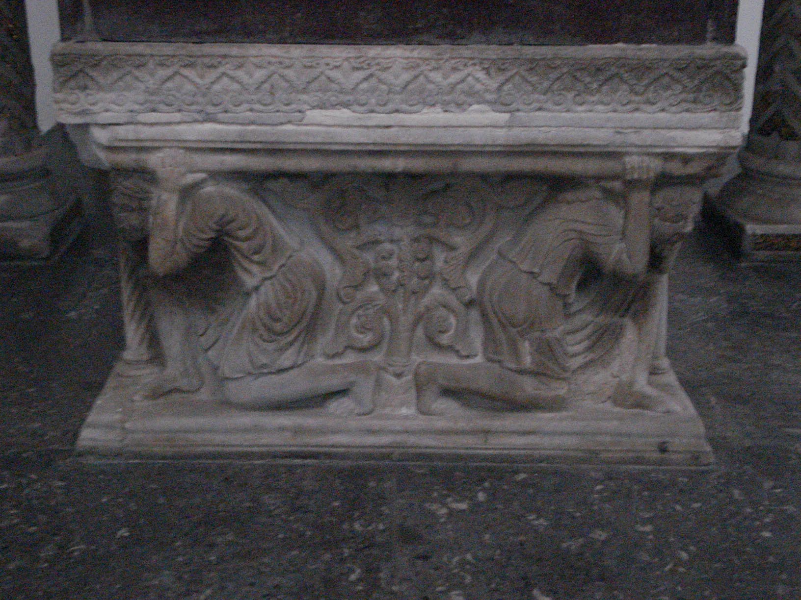 Detail of Roger II's sarcophagus (Palermo Cathedral)